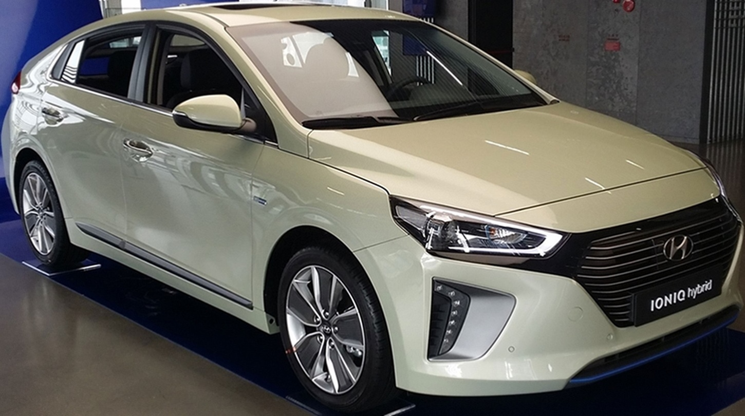 Hyundai Ioniq